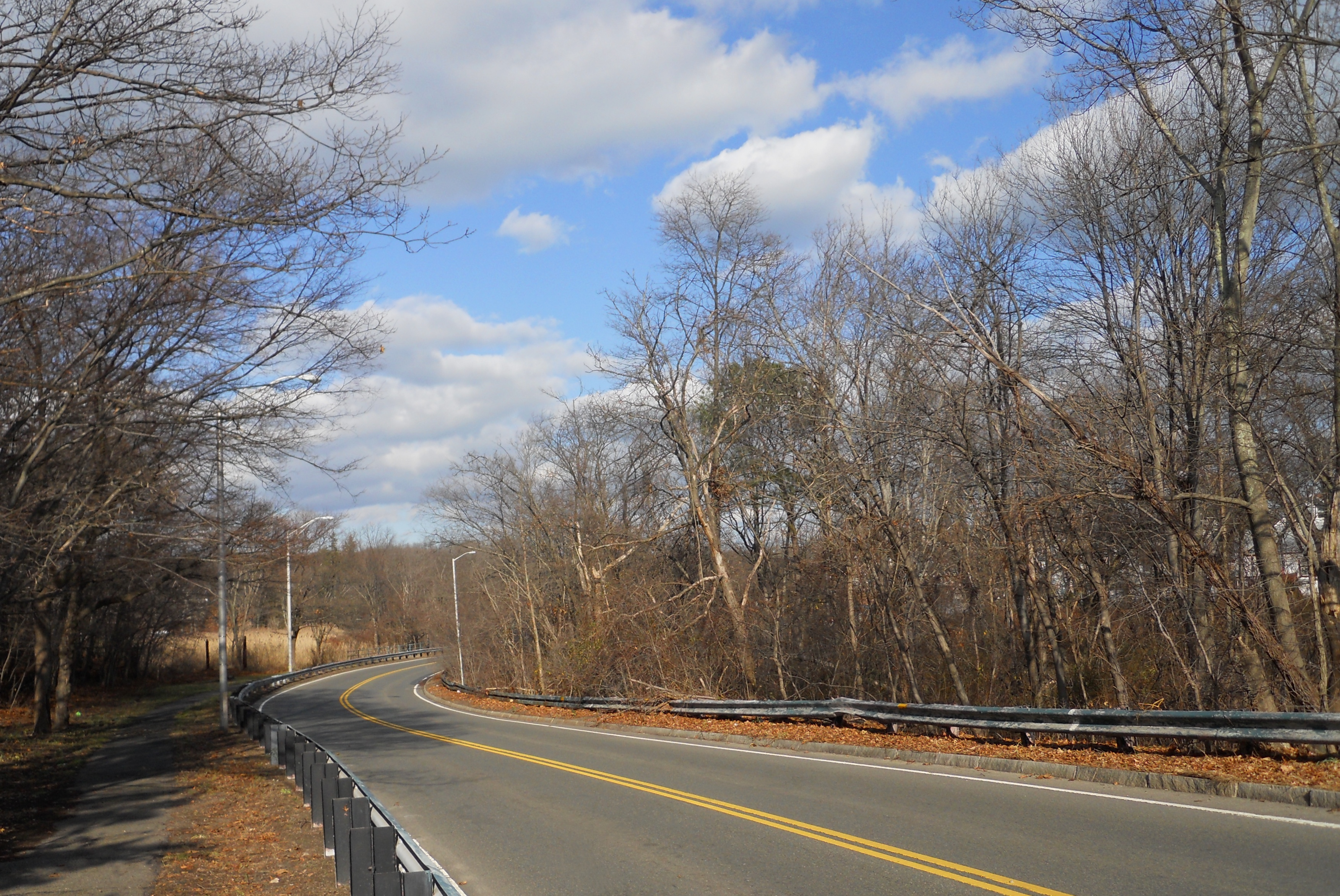 View looking northbound between Hancock Street and Southern Artery approaching Blacks Creek bridge along Furnace Brook Parkway in Quincy, Massachusetts